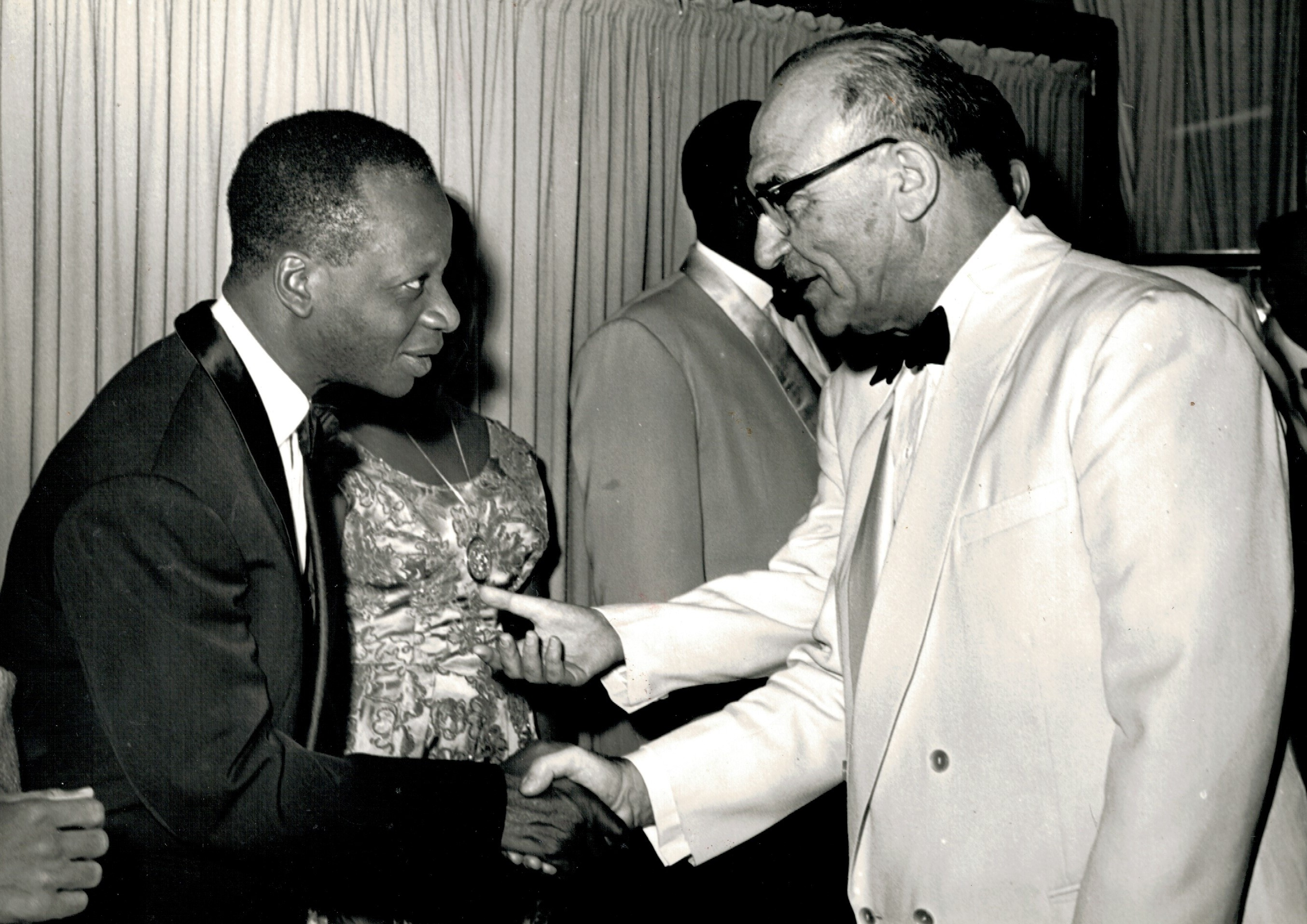 Israeli Prime Minister Levi Eshkol and Minister of Foreign Affairs for Dahomey Émile Zinsou at a reception for the President of Dahomey, September 29, '63.